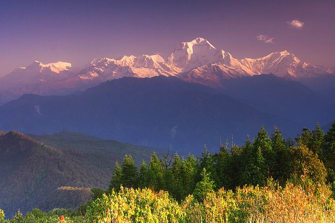 Mt. Dhaulagiri. Taken in 2005 from Poon Hill.